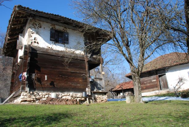 Slavko Radojičić Court in Lazac